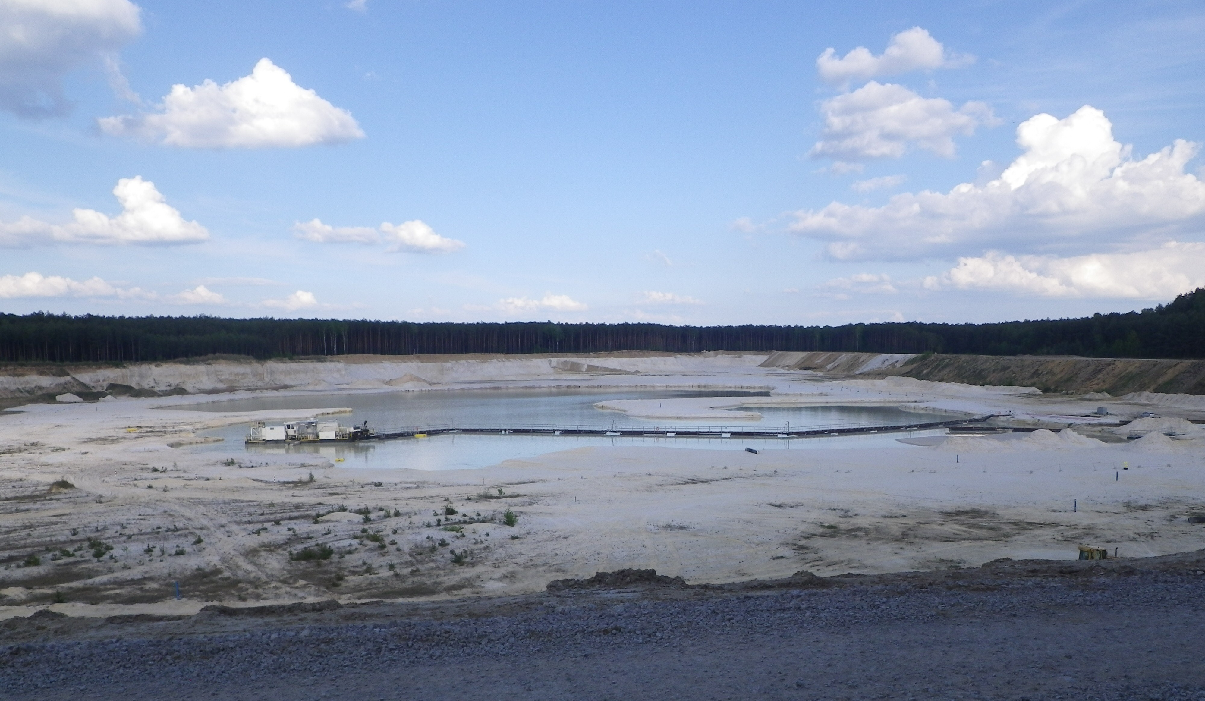 Biała Góra sand mine near Tomaszów Mazowiecki